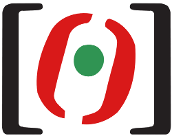 The logo of Canto, a biological database